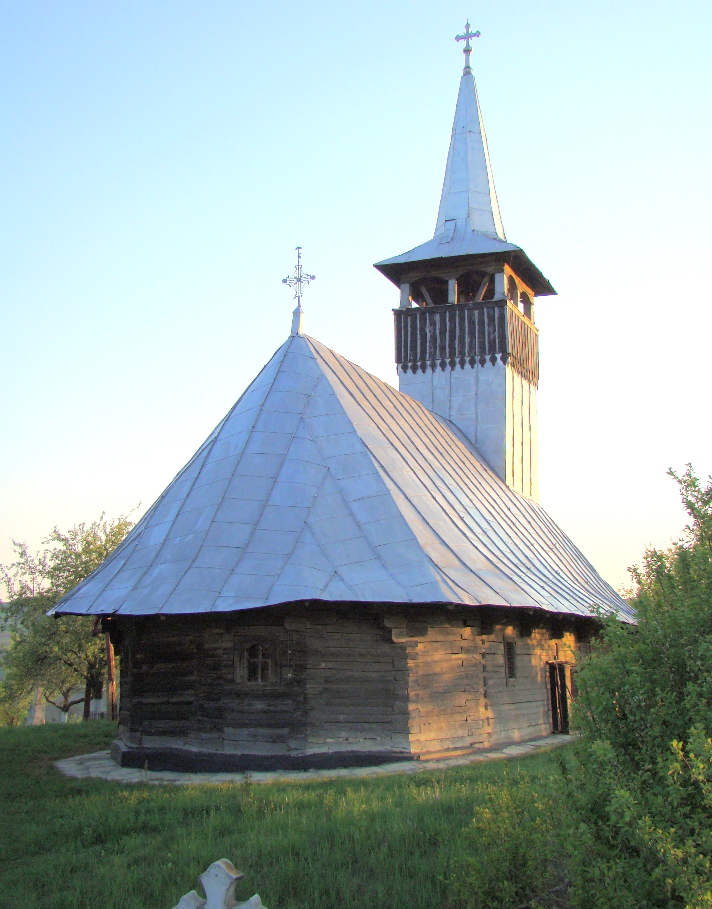 wooden Orthodox church in Năsal, Cluj County, Romania